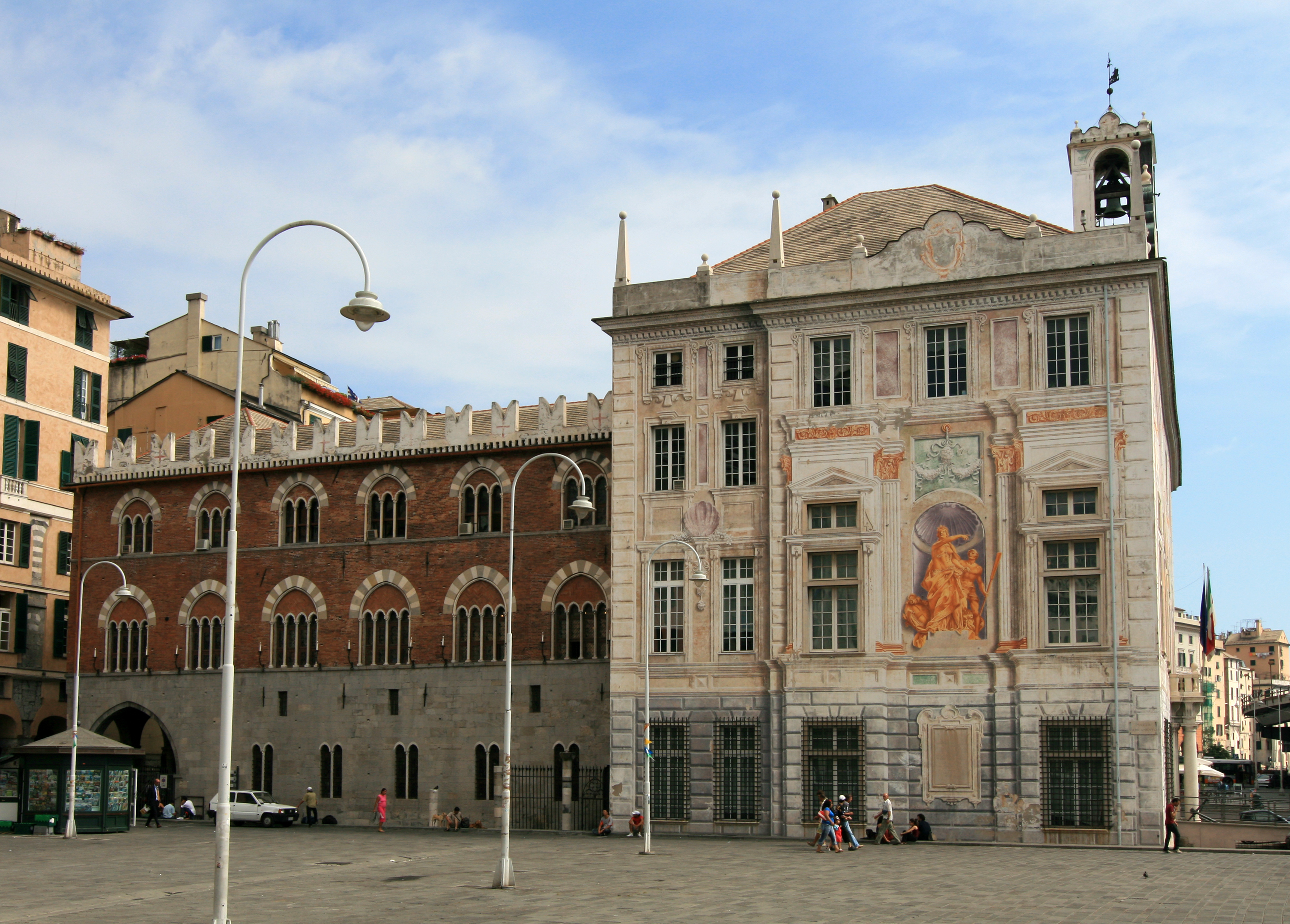 Palazzo San Giorgio, Genoa. North front.